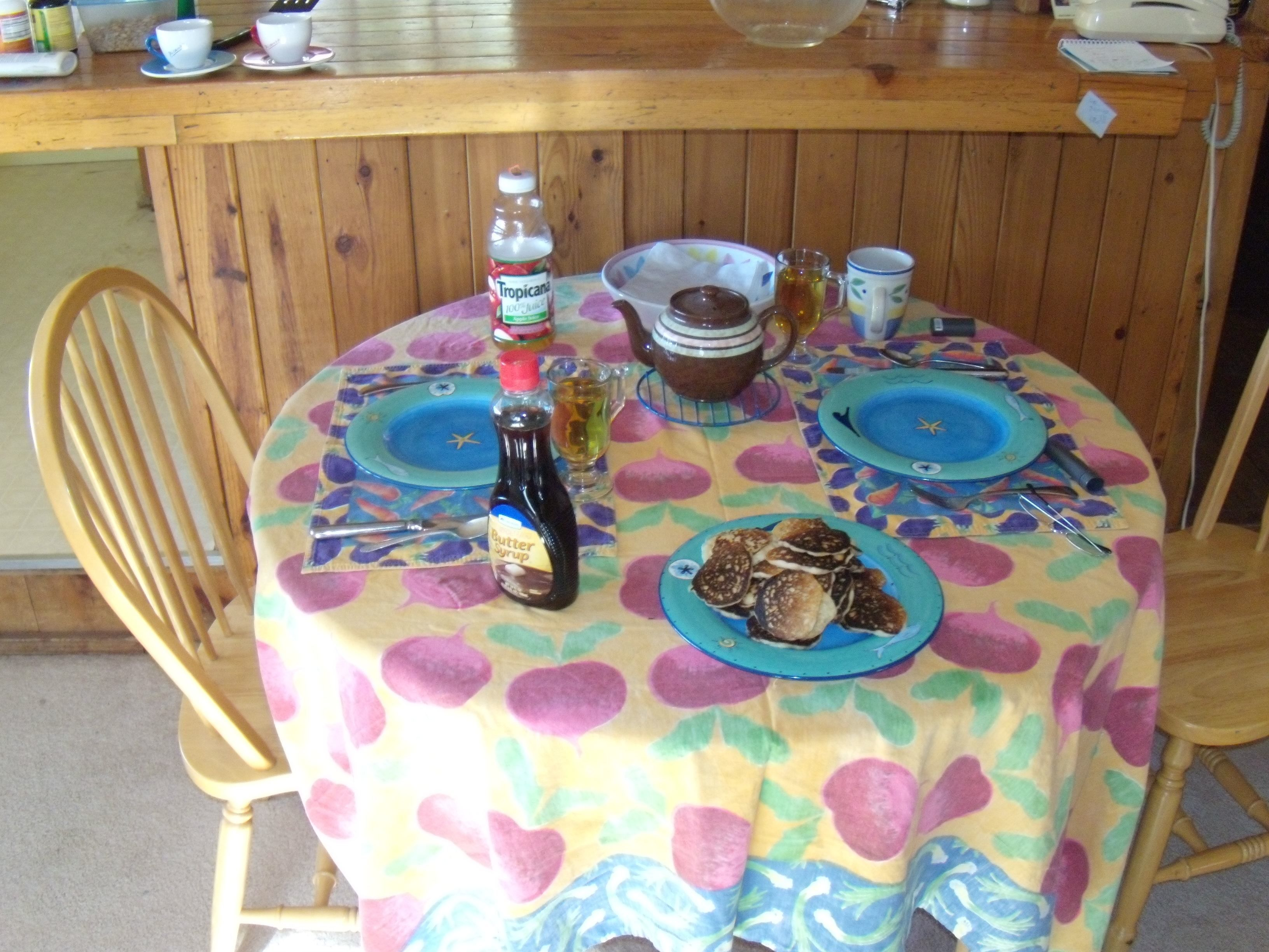 Table setting with pancakes in a California mountain cabin, 2009. Other information Photo by George Garrigues.